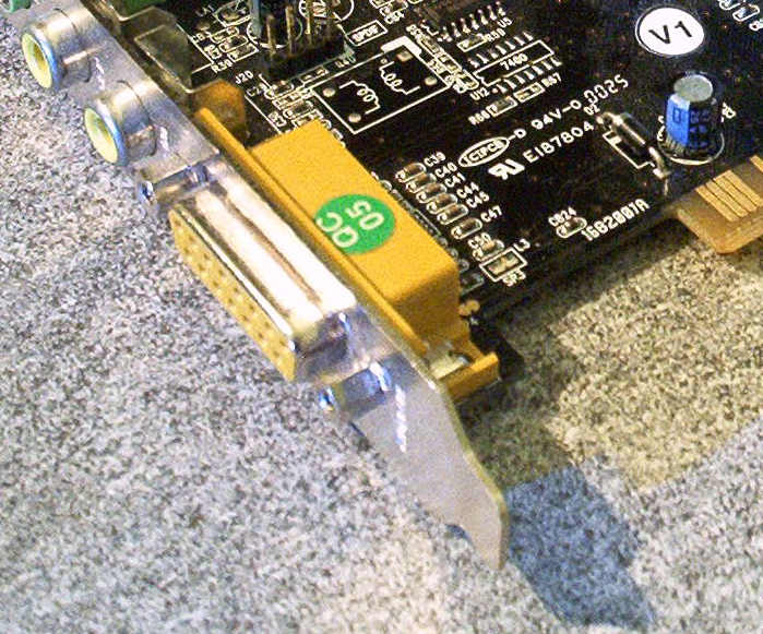 Image of the da-15 port